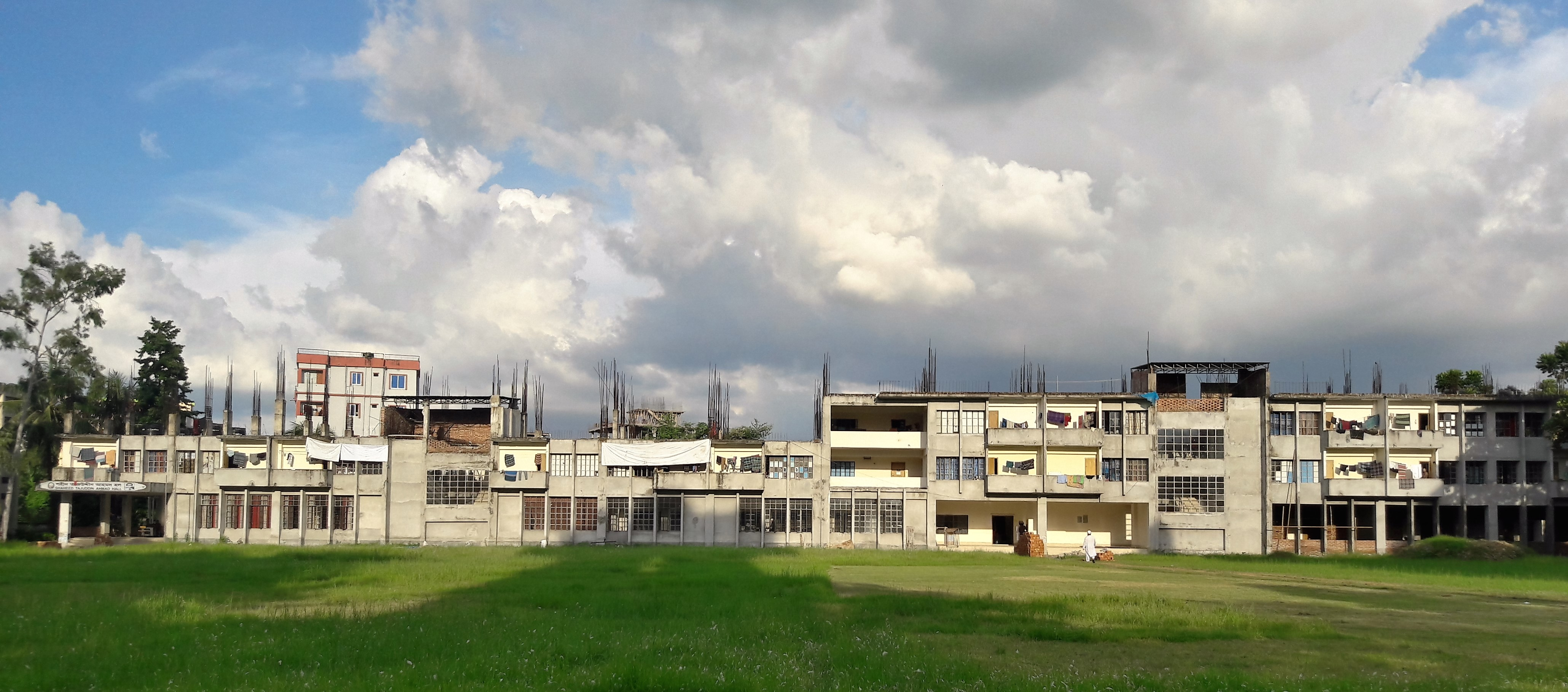 Dhaka University of Engineering & Technology, Gazipur or DUET, Gazipur is a public university for the study of engineering in Bangladesh.